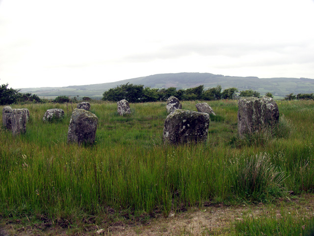 Reanascreena. Looking South toward Benduff, this stone circle lies at the southern edge of the grid square